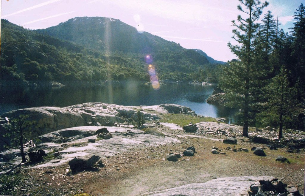 Upper Hell Hole lake view looking north.